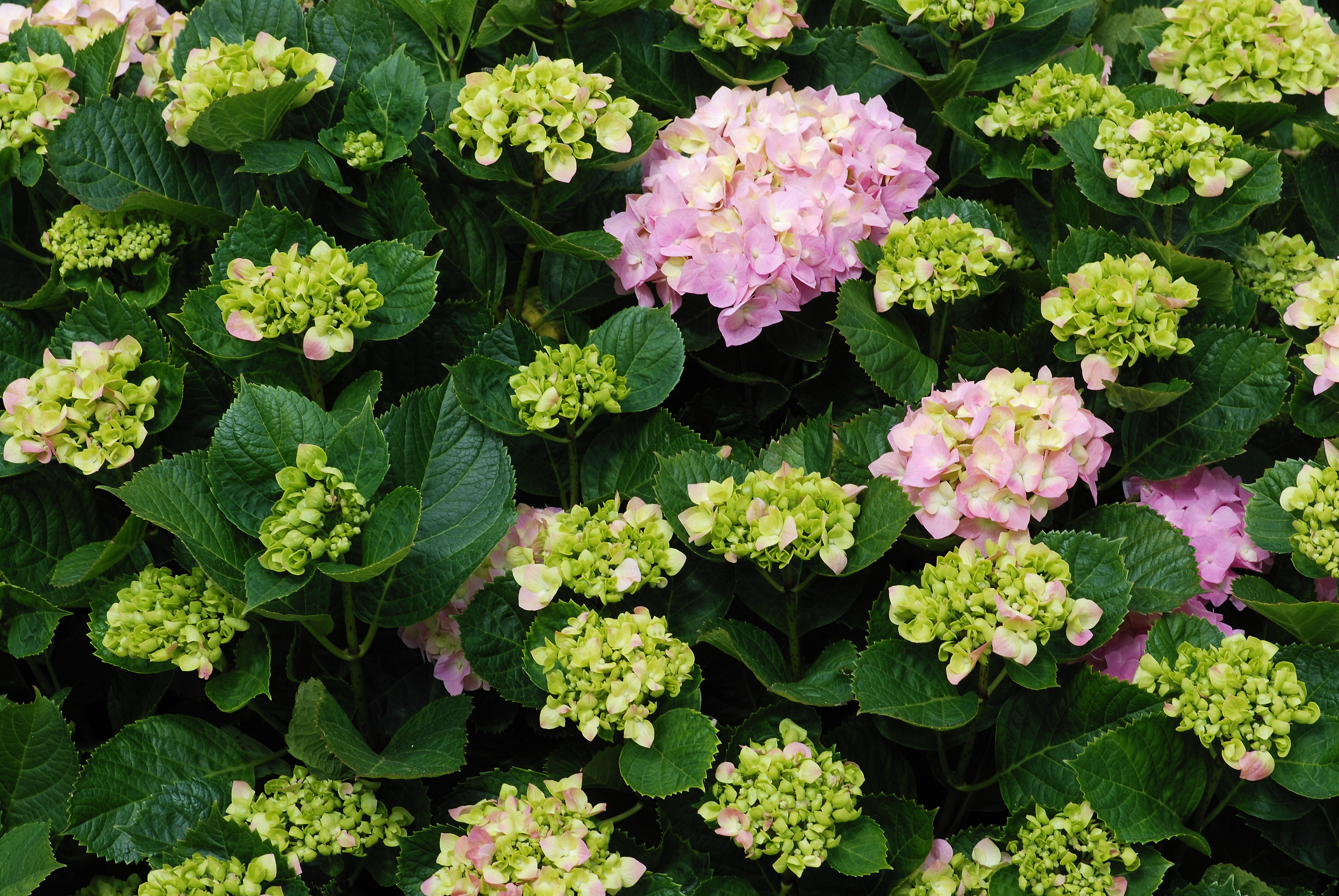 Flowers, buds and leaves of Hydrangea macrophylla.